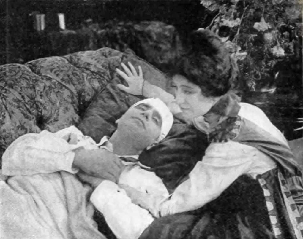 Scene from the 1916 film The Habit of Happiness.